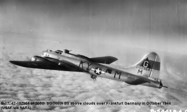 B-17G Serial 42-102964 of the 305th Bomb Group, based at RAF Chelveston, England, over Frankfurt, Germany.